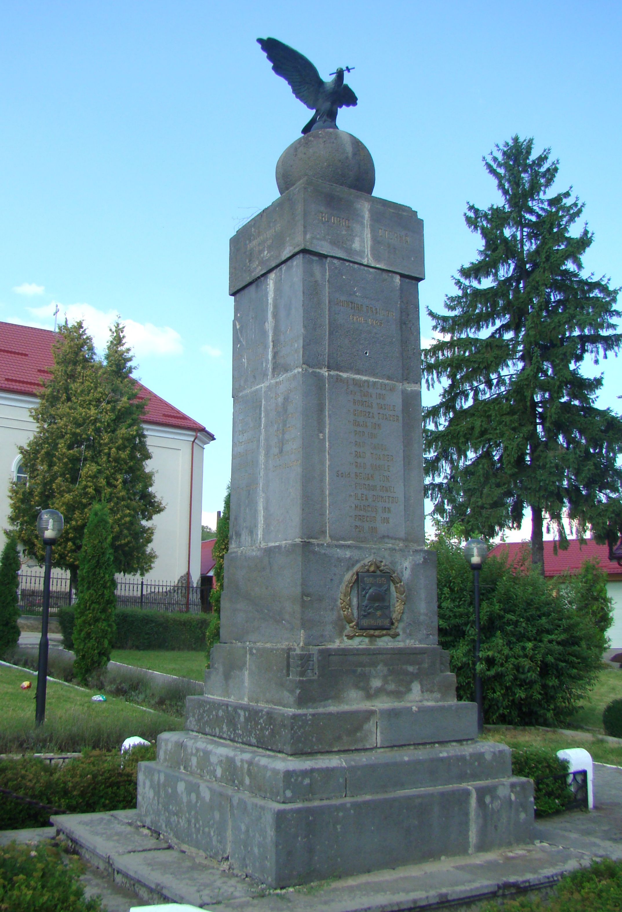 World War memorial in Monor, Bistrița-Năsăud county, Romania